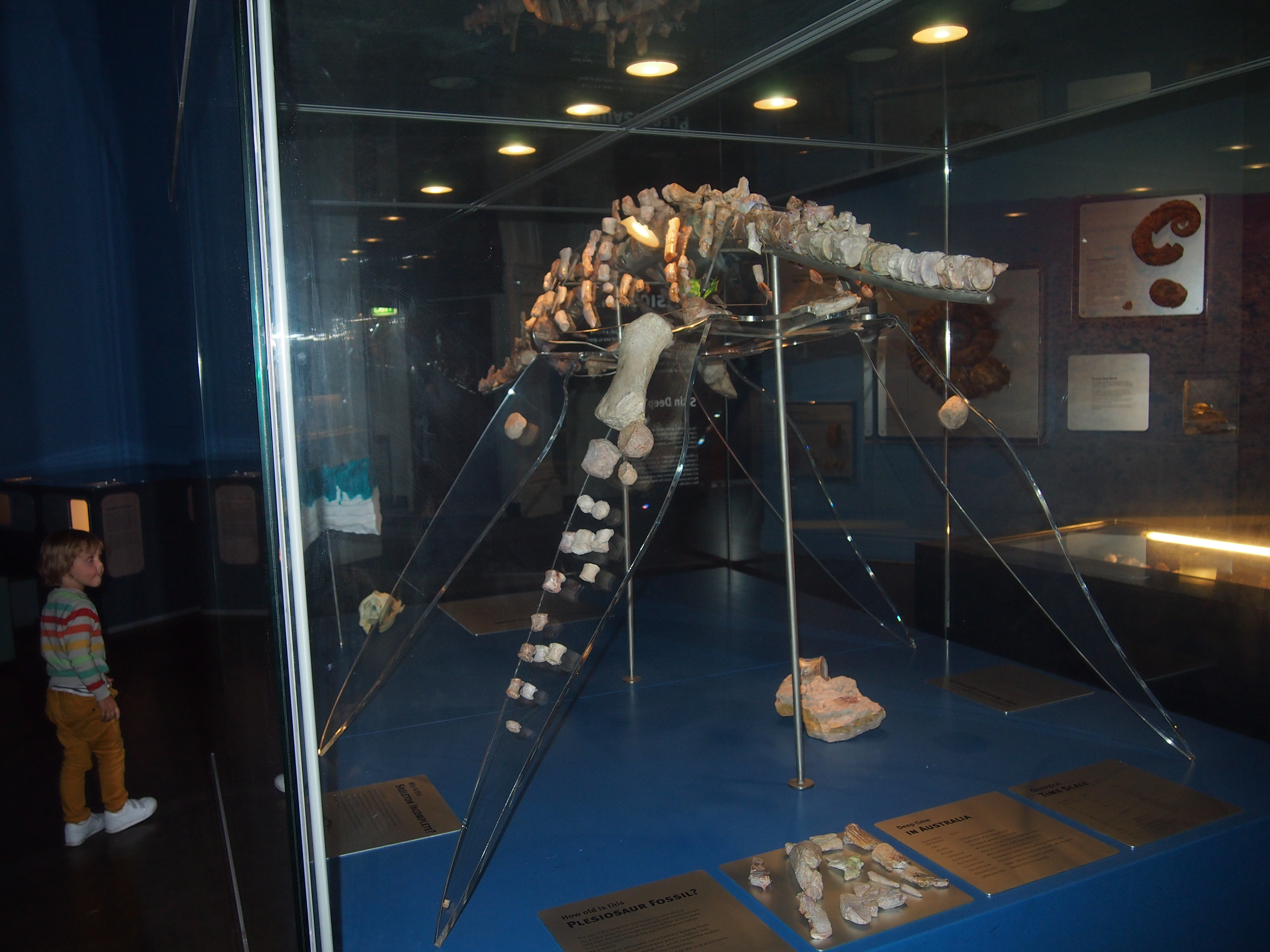 Rear view of the opalised Addyman Plesiosaur fossil at the South Australian Museum. Original filename = P2211109.JPG